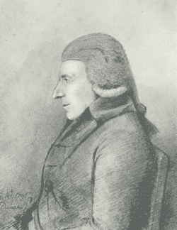 Chalk portrait of the Irish painter, Solomon Delane (c.1727-1812)